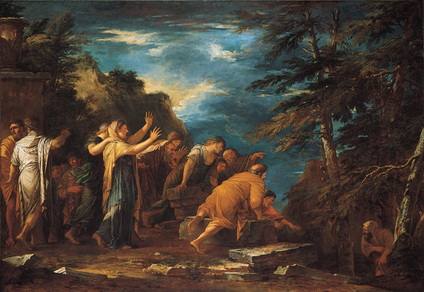 Pythagoras Emerging from the Underworld